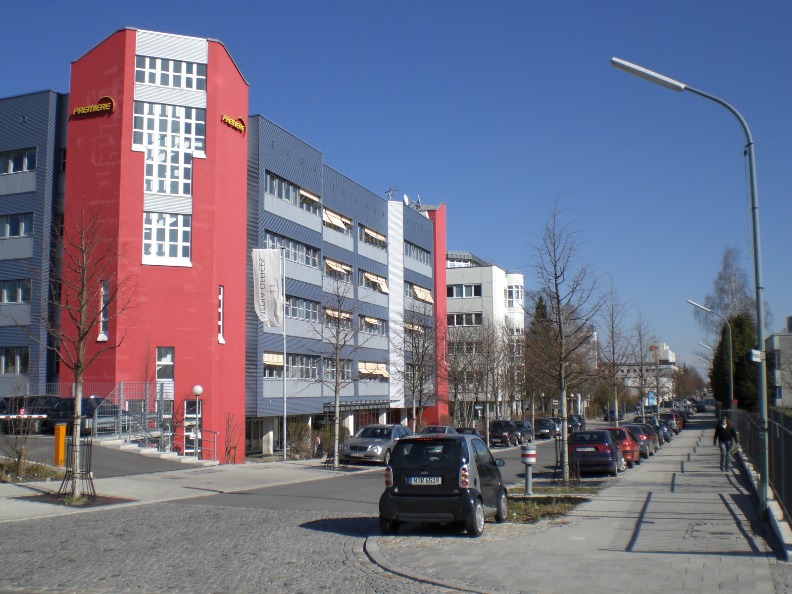 site of TV enterprises in Unterföhring near Munich, Germany. In the background BR und ZDF